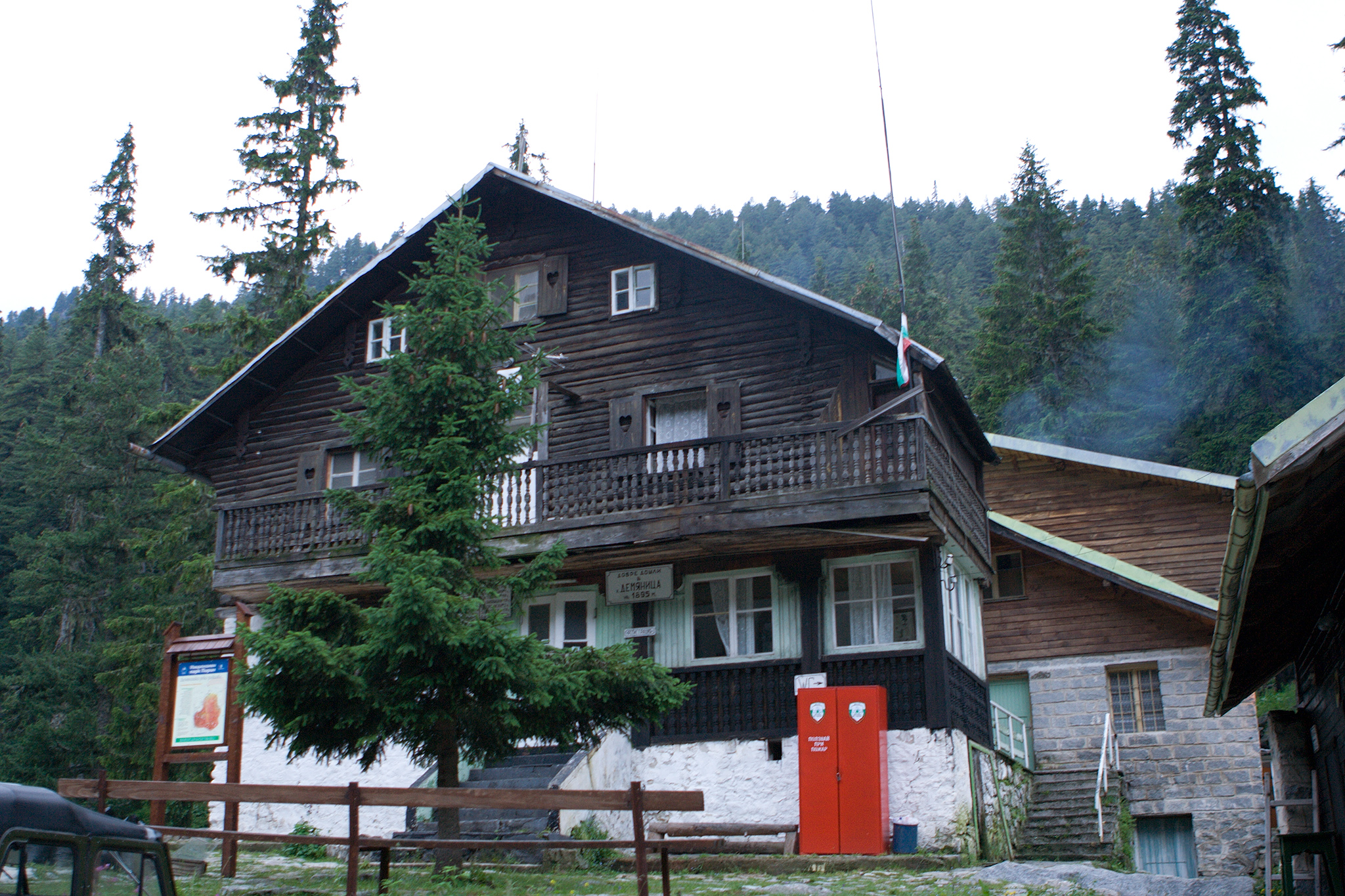 Demjanitsa hut, Pirin mountain, Bulgaria